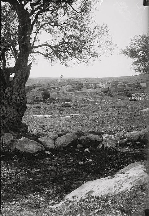 Southern Palestine. Village of Zachariah